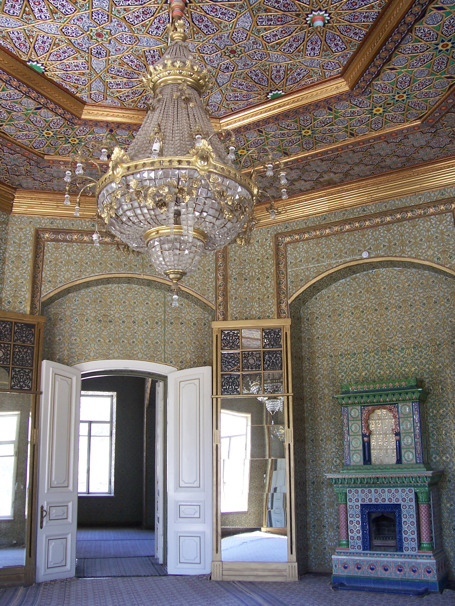 Inside the Palace Isfandiyar / KHIVA (UZBEKISTAN)